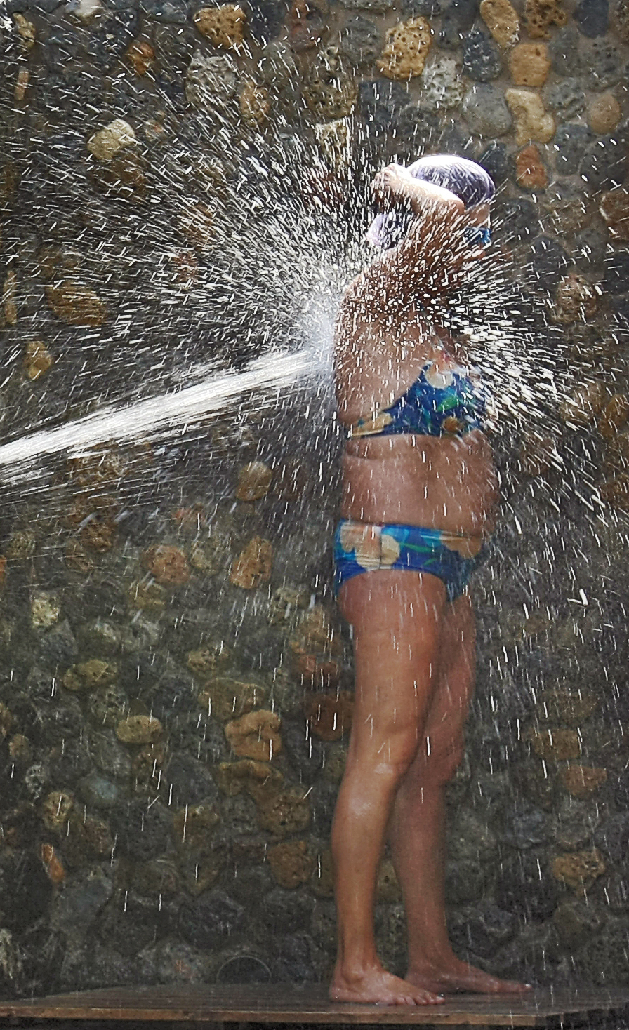 Hydromassage on shore of Lake Moynaki. Yevpatoria, CrimeaEesti: Hüdromassaaž ehk jugadušš (šarko) Moinaki limaani eriti soolase veega. Jevpatorija. Krimm